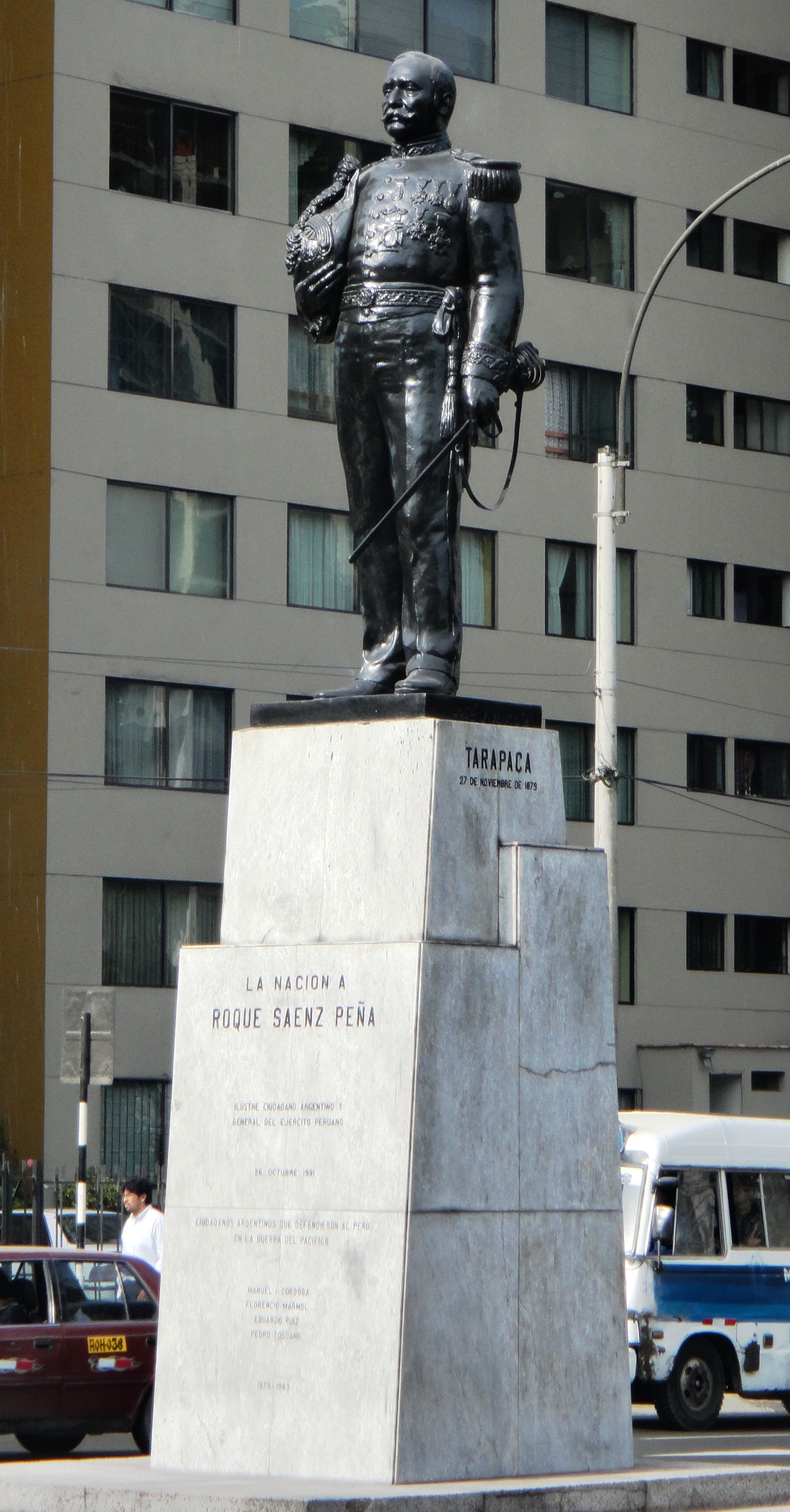 Statue of Roque Saenz Peña in San Isidro District, Lima-Peru.